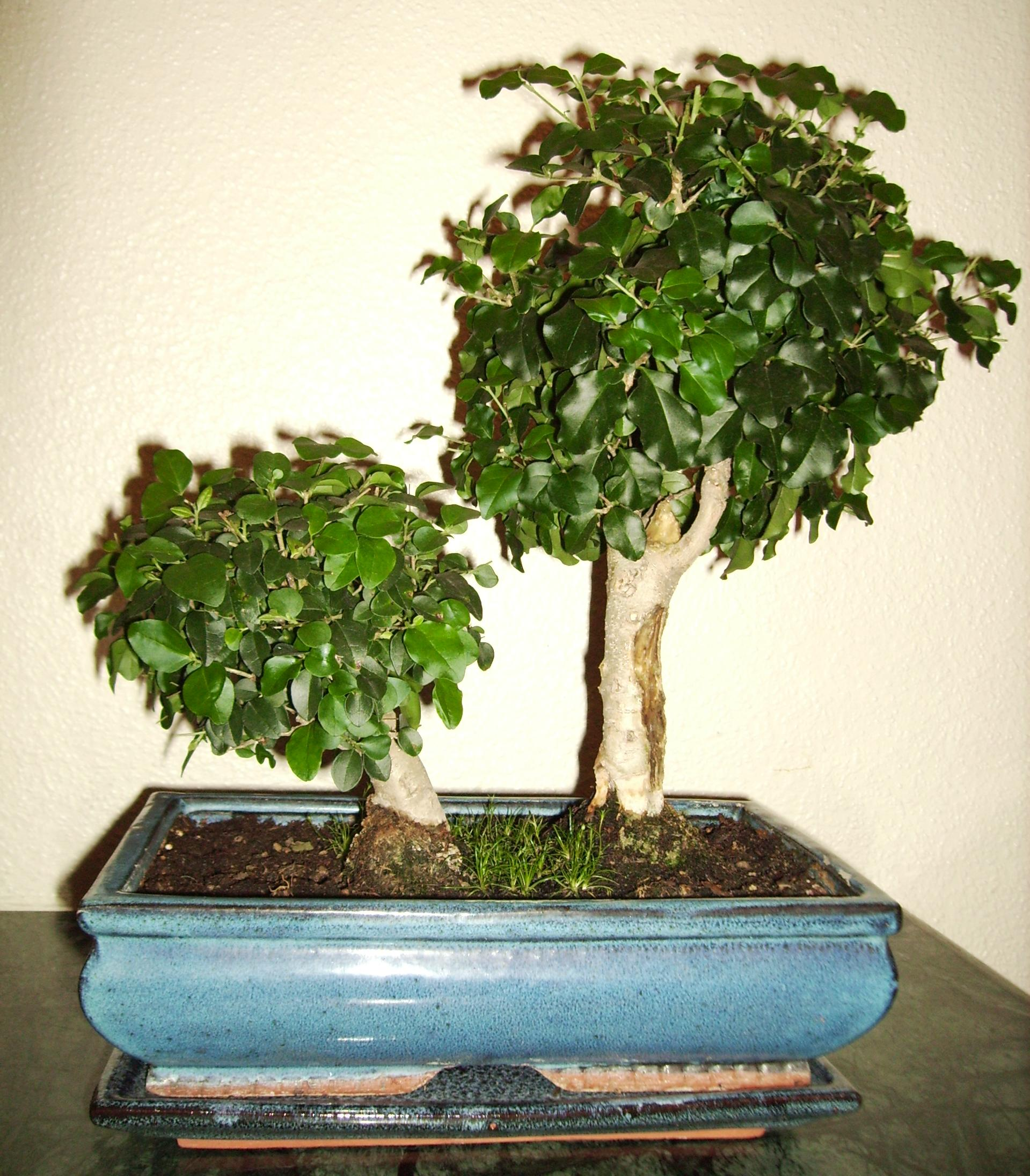 Department Store Bonsai – Chinese Privet (Ligustrum sinensis)